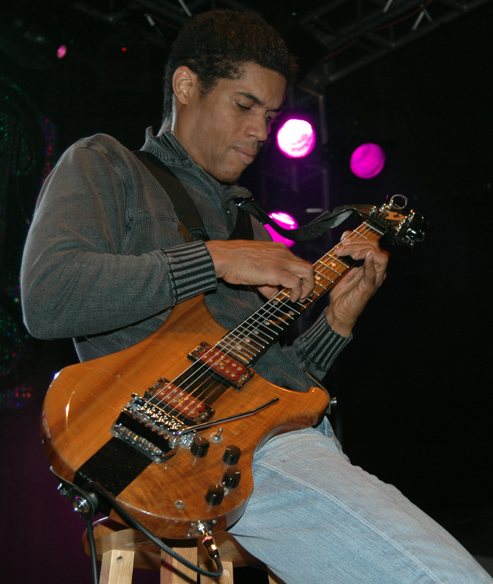 Stanley Jordan (July 31, 1959) is an American jazz/jazz fusion guitarist, best known for his development of the touch technique for playing guitar.